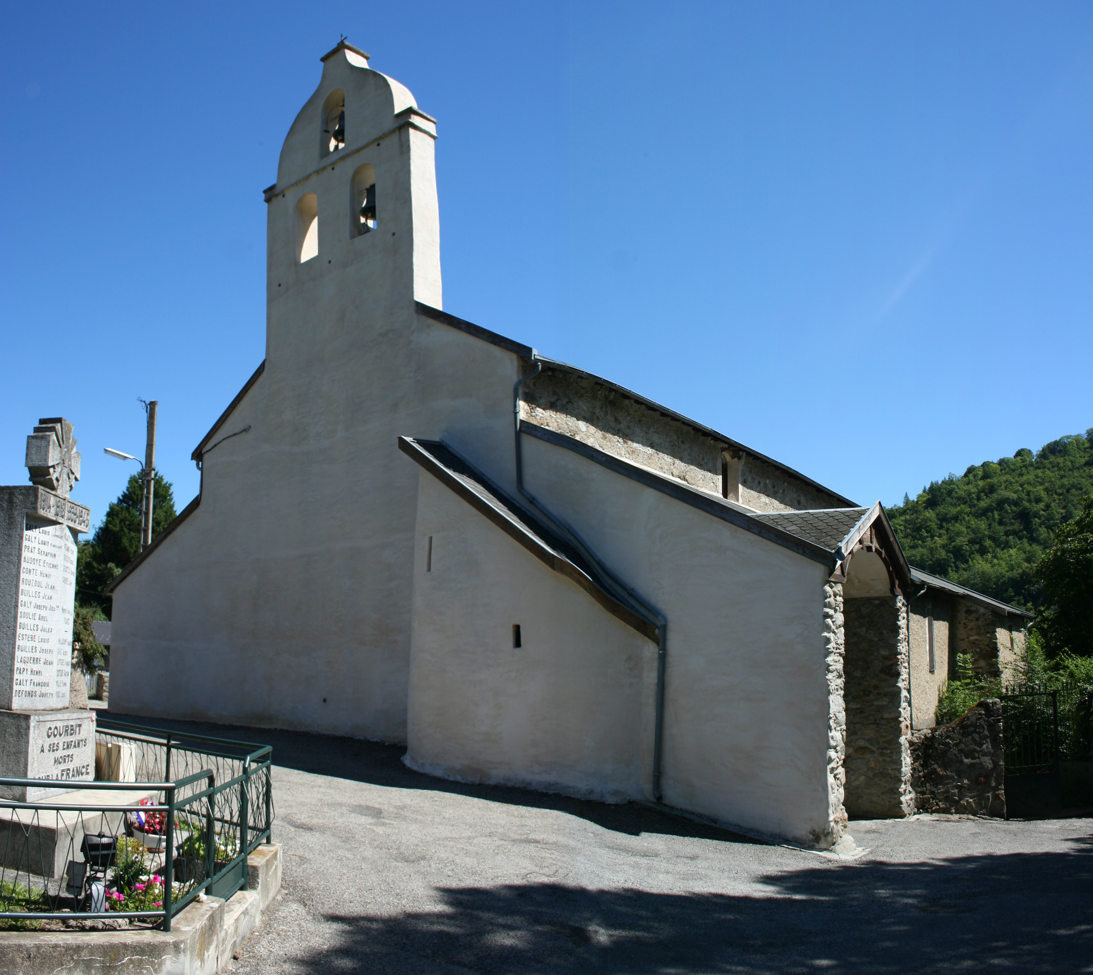 Gourbit village Church in french Pyrenee